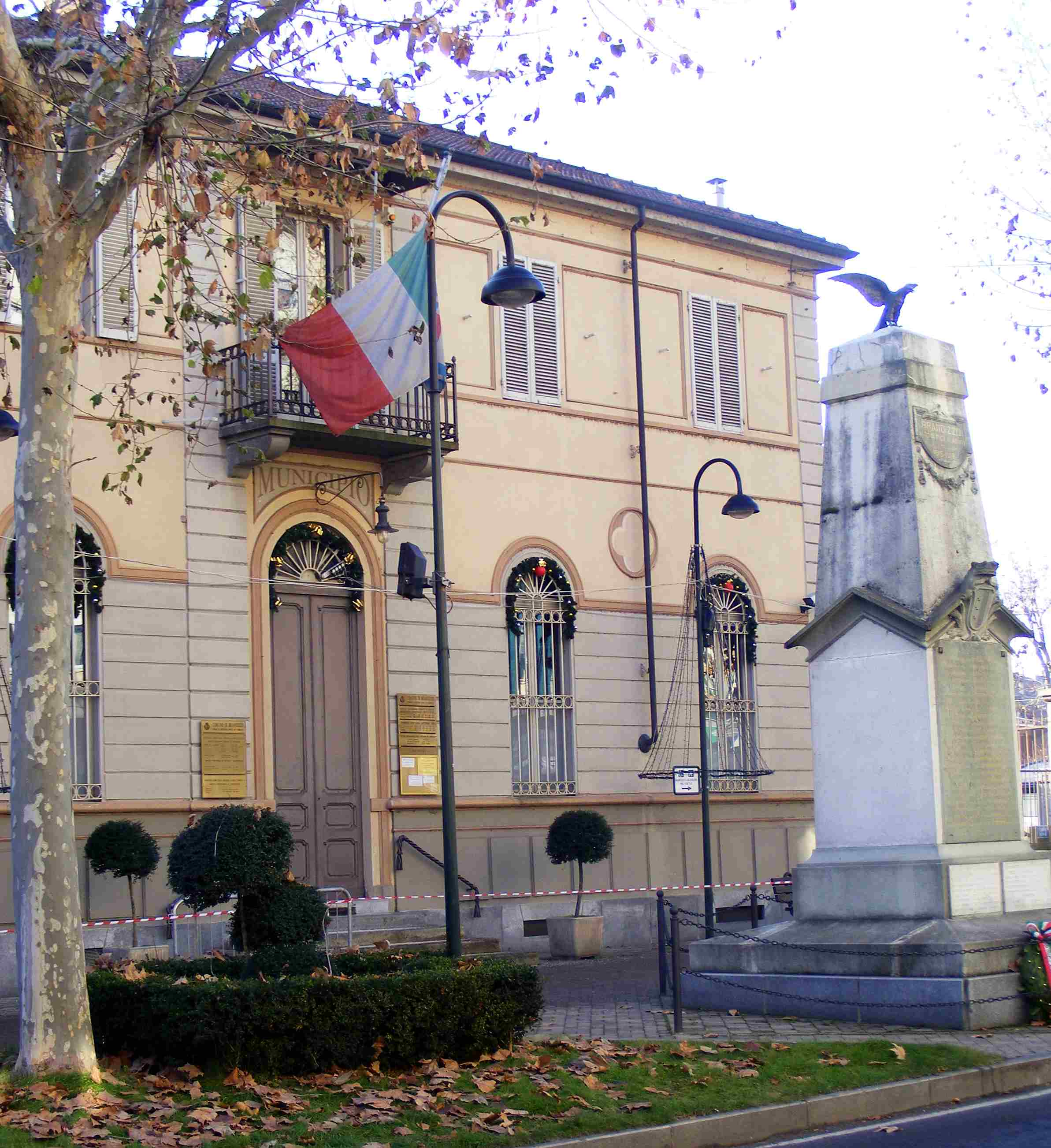 Brandizzo (TO, Italy): town hall